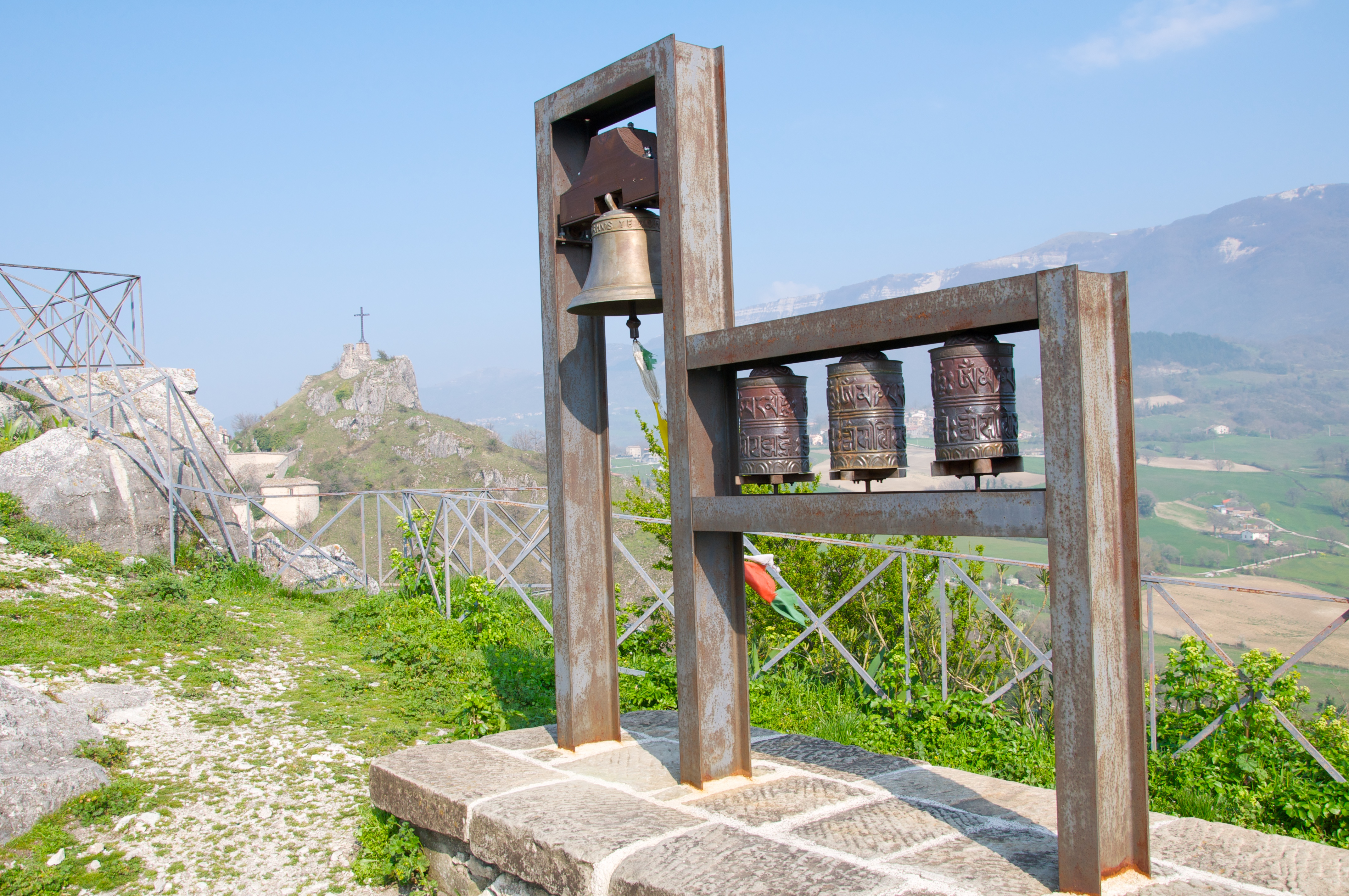 A European bell and three Tibetan prayer wheels on the summit of Pennabilli, Italy